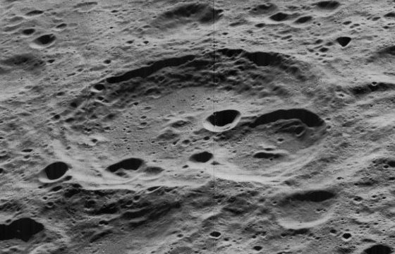 Oblique view of Seyfert, on the far side of the moon, facing west.